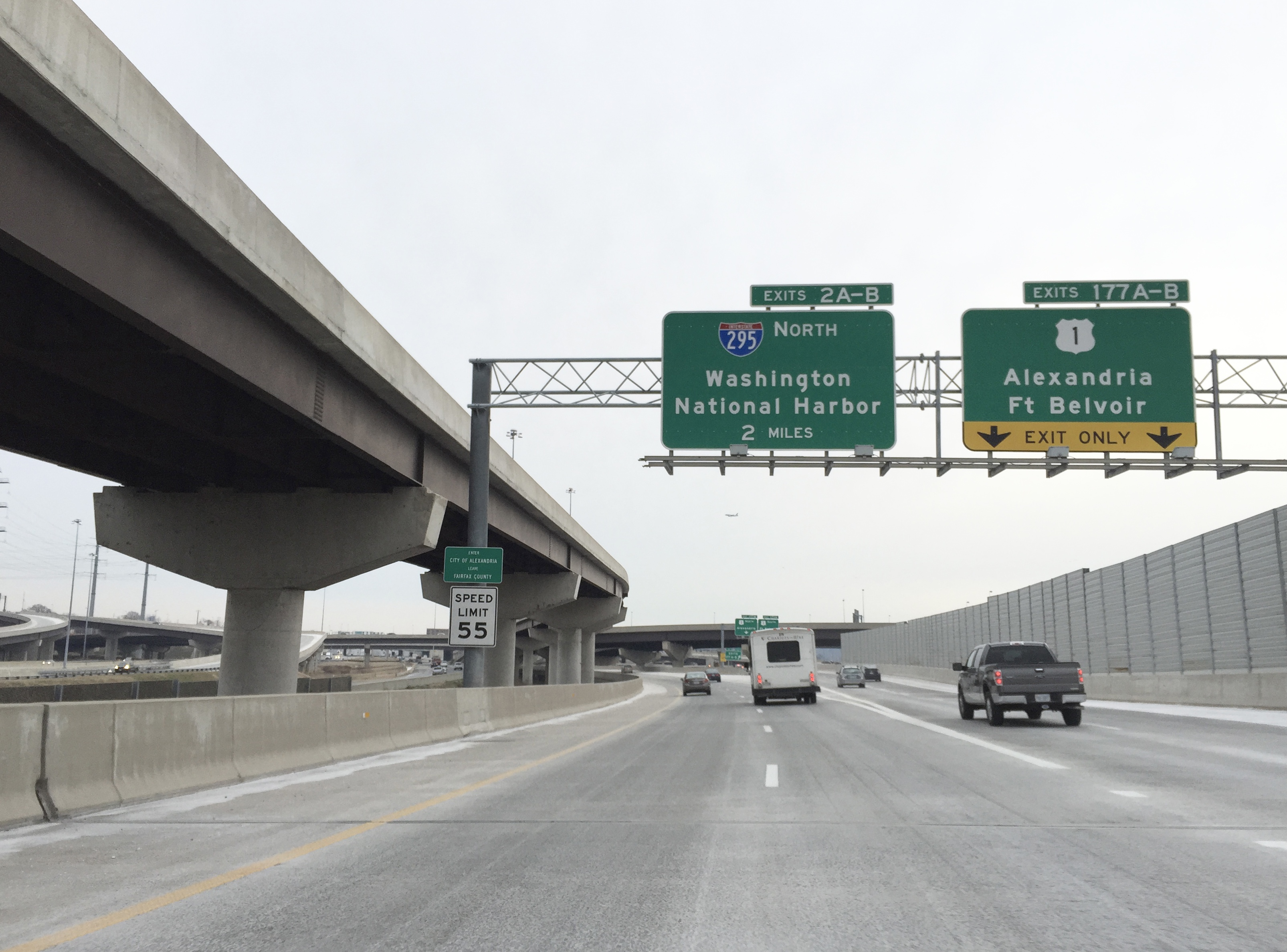 View north along Interstate 95 and east along the outer loop of the Capital Beltway (Interstate 495) at Exit 177 (U.S. Route 1, Alexandria, Fort Belvoir) in Alexandria, Virginia